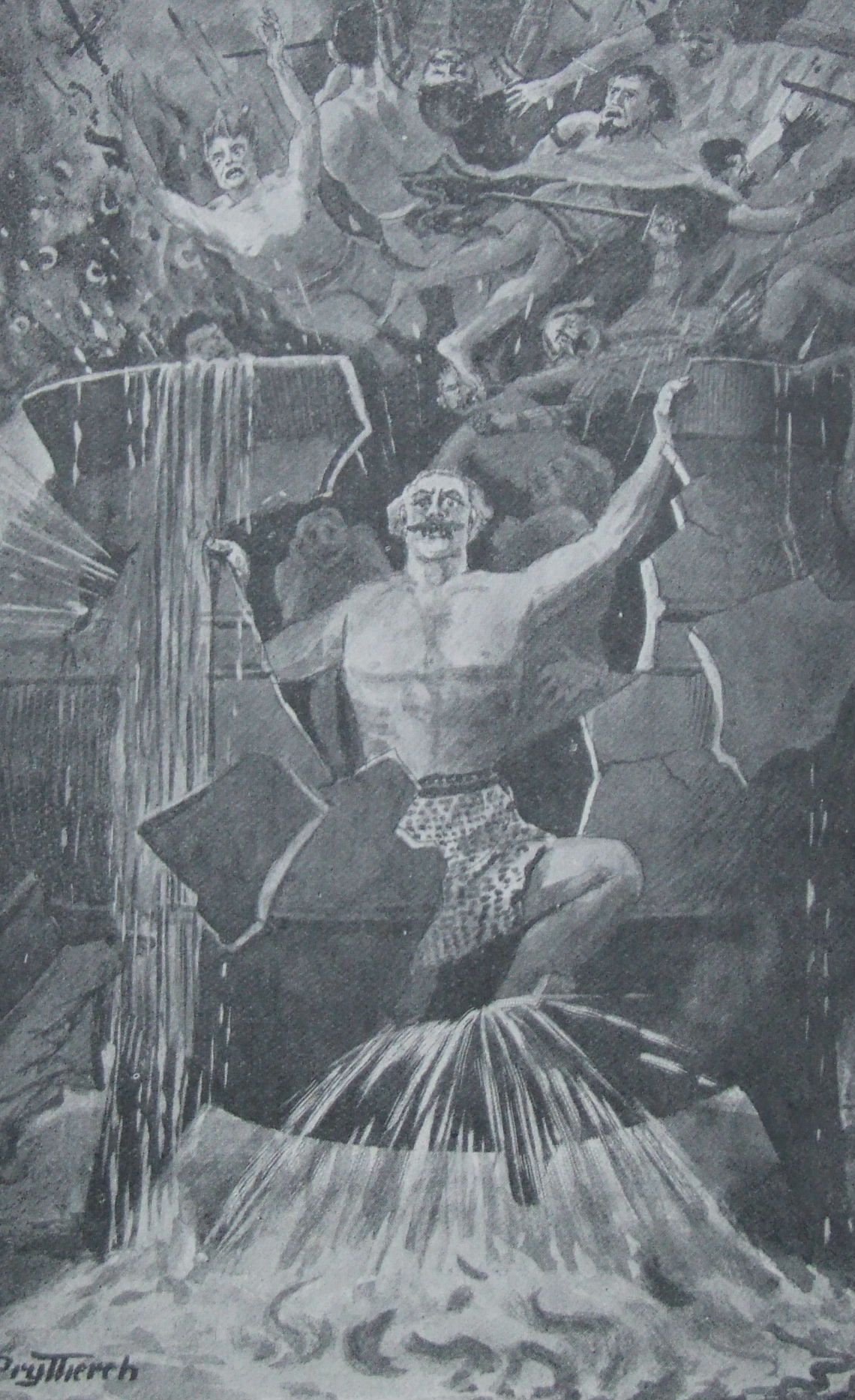 Efnisien sacrifices himself to destroy the cauldron of rebirth.